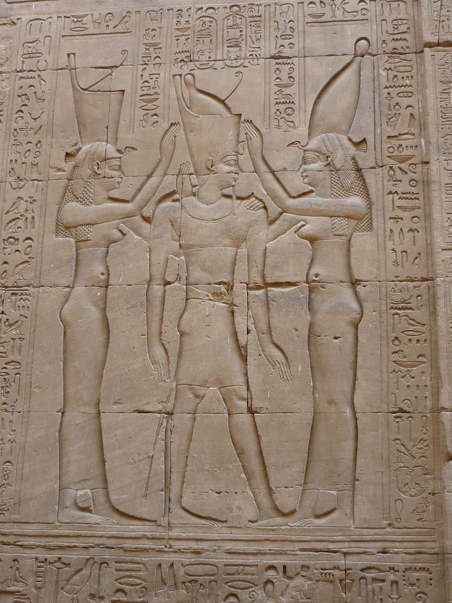 Wall relief of Ptolemy VIII with Wadjet (on the left) and Nekhbet (on the right), temple of Edfu, Egypt